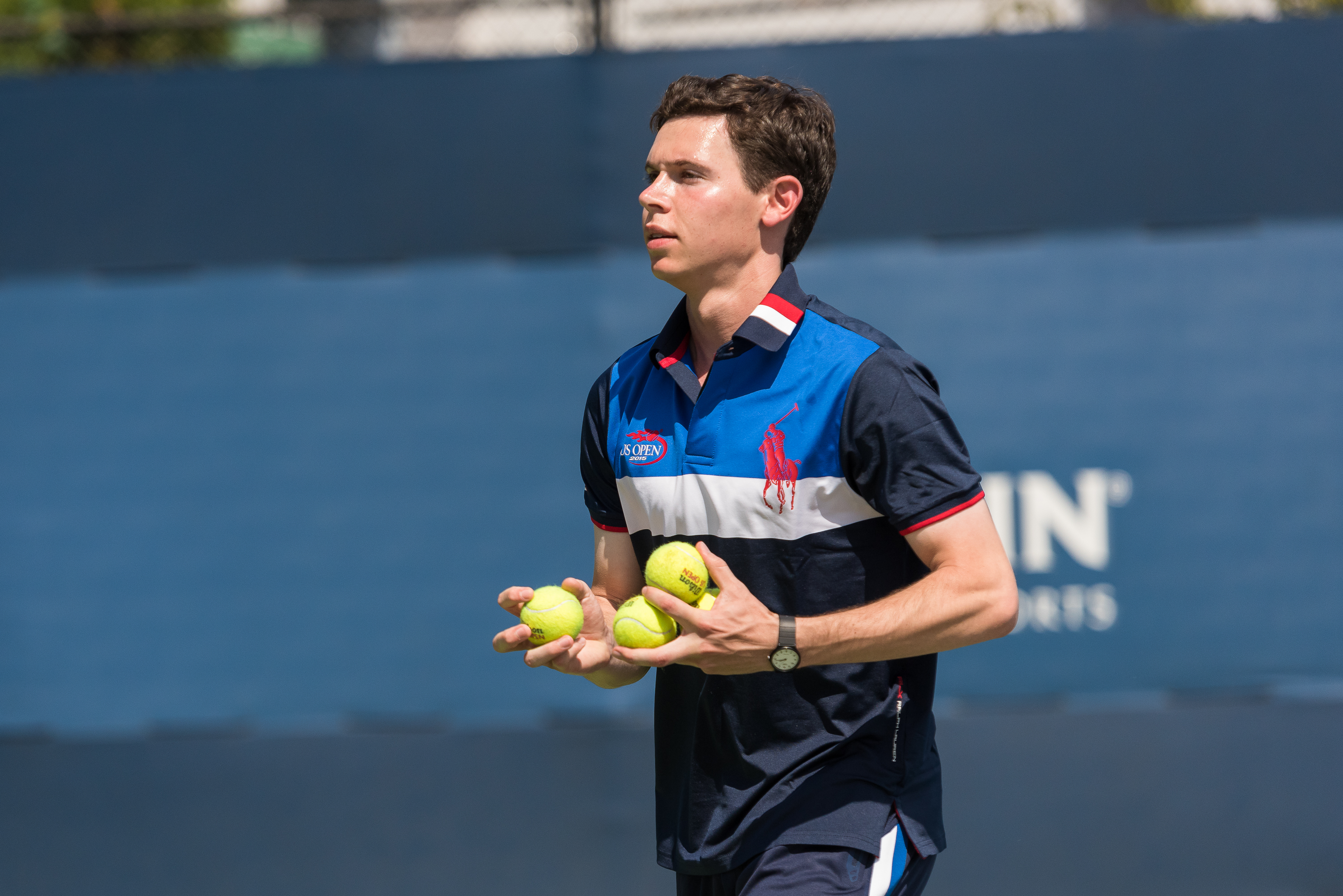 August 27, 2015 Court 12 Flushing, NY